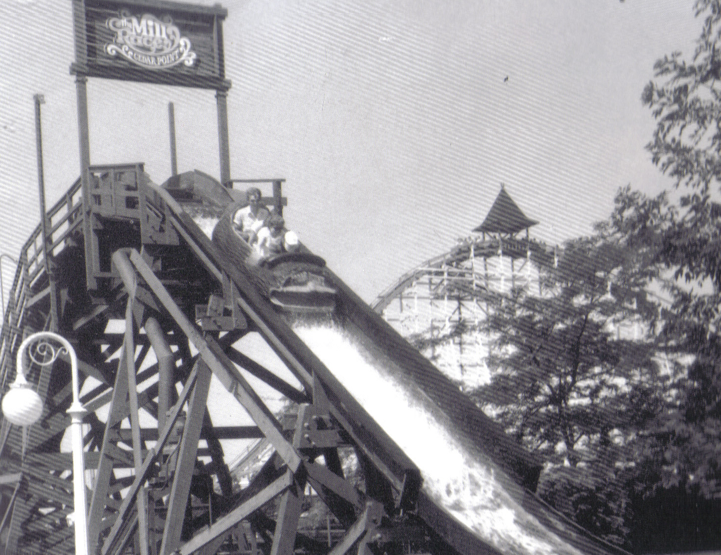 Cedar Point's Mill Race during it’s first season in 1963.